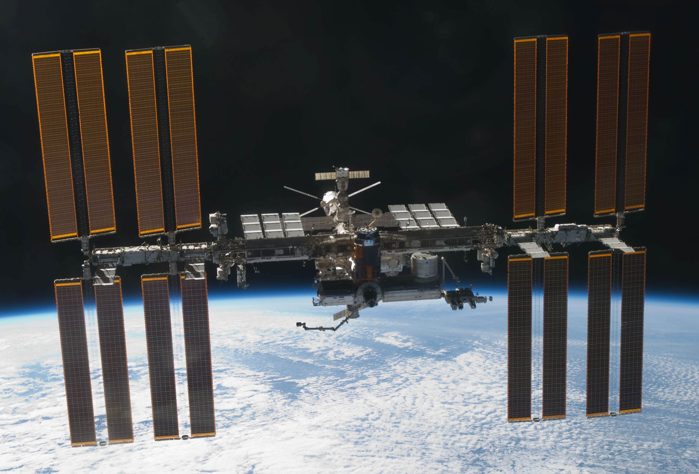 Backdropped against the blackness of space and clouds over Earth, the International Space Station is seen from Discovery as the two orbital spacecraft accomplish their relative separation on March 7 after an aggregate of 12 astronauts and cosmonauts worked together for over a week. During a post undocking fly-around, the crew members aboard the two spacecraft collected a series of photos of each other's vehicle.